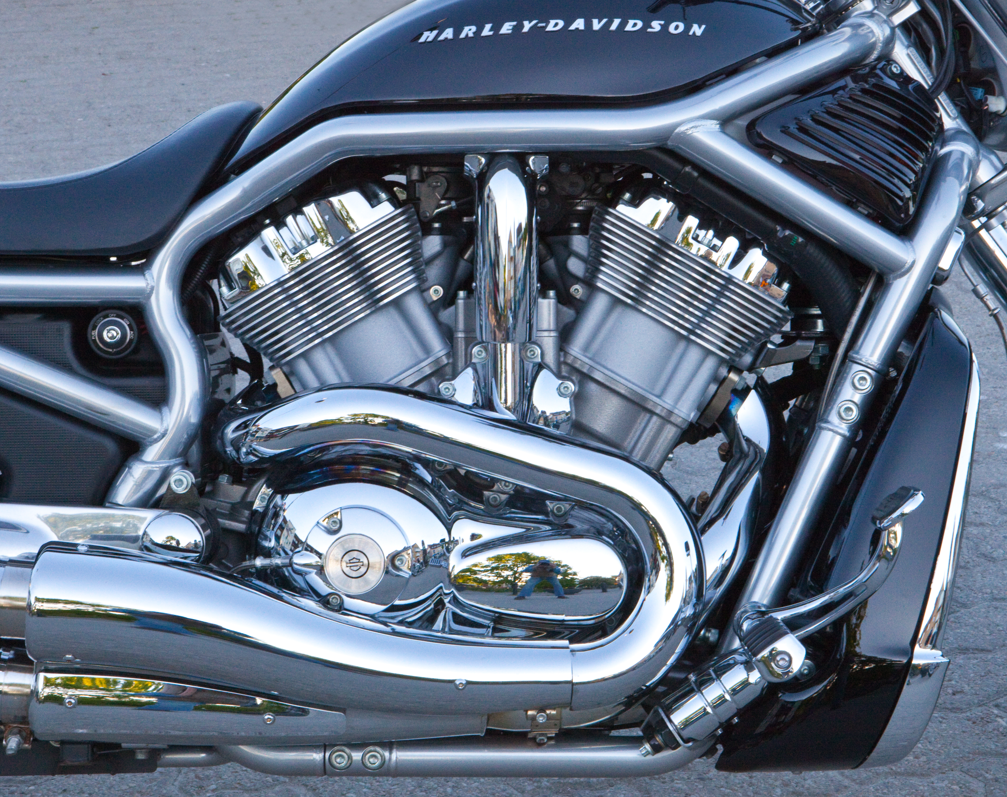 Harley-Davidson Revolution water cooled motorcycle engine. Photo Vaxholm May 2012